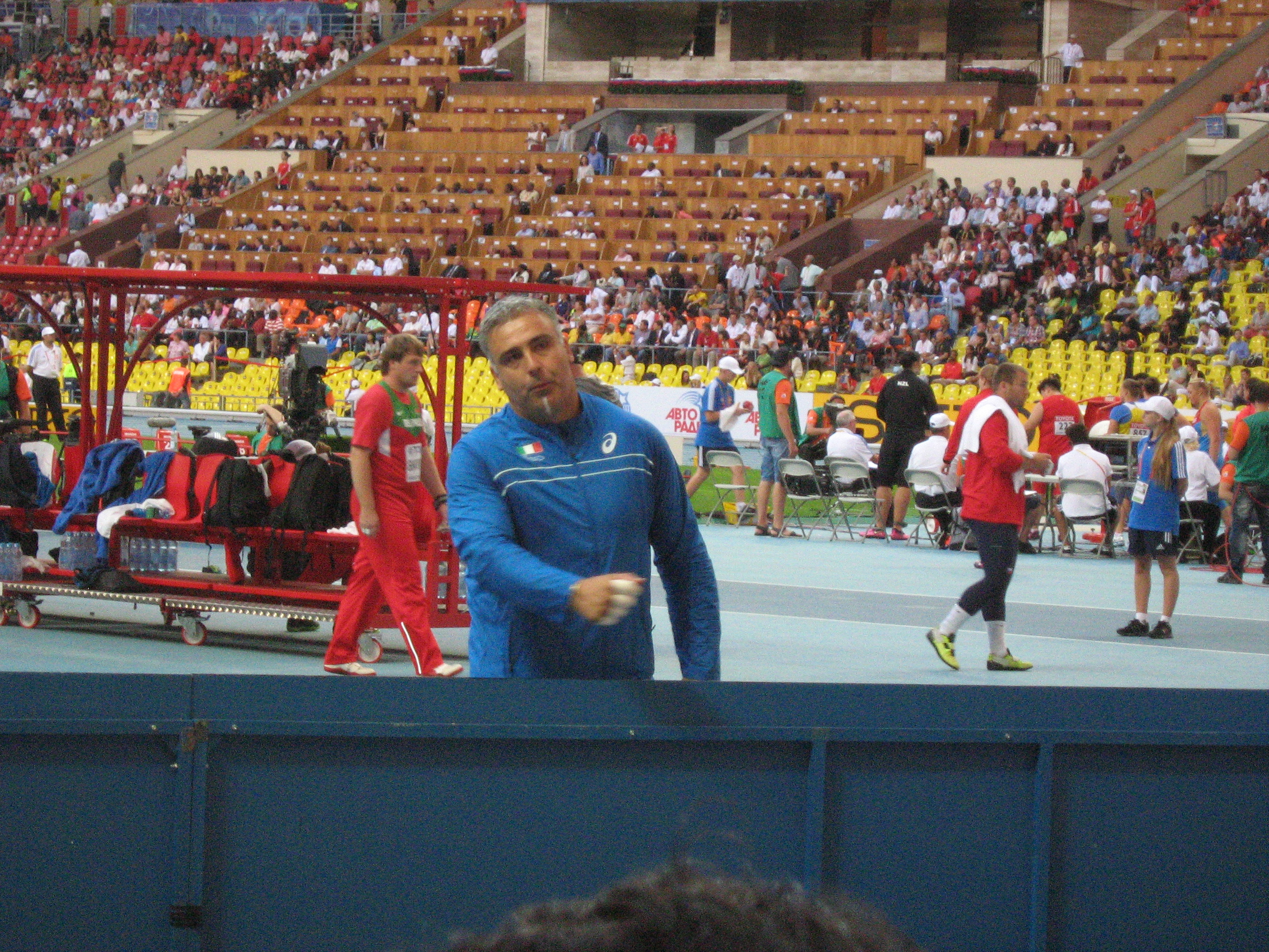 The second day of the World Championships in Athletics in Moscow 2013